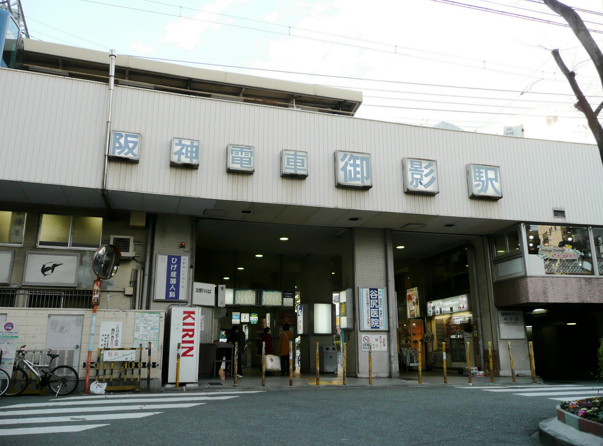 Hanshin Electric Railway,Main Line,MIkage Station south entrance. /阪神本線御影駅南口